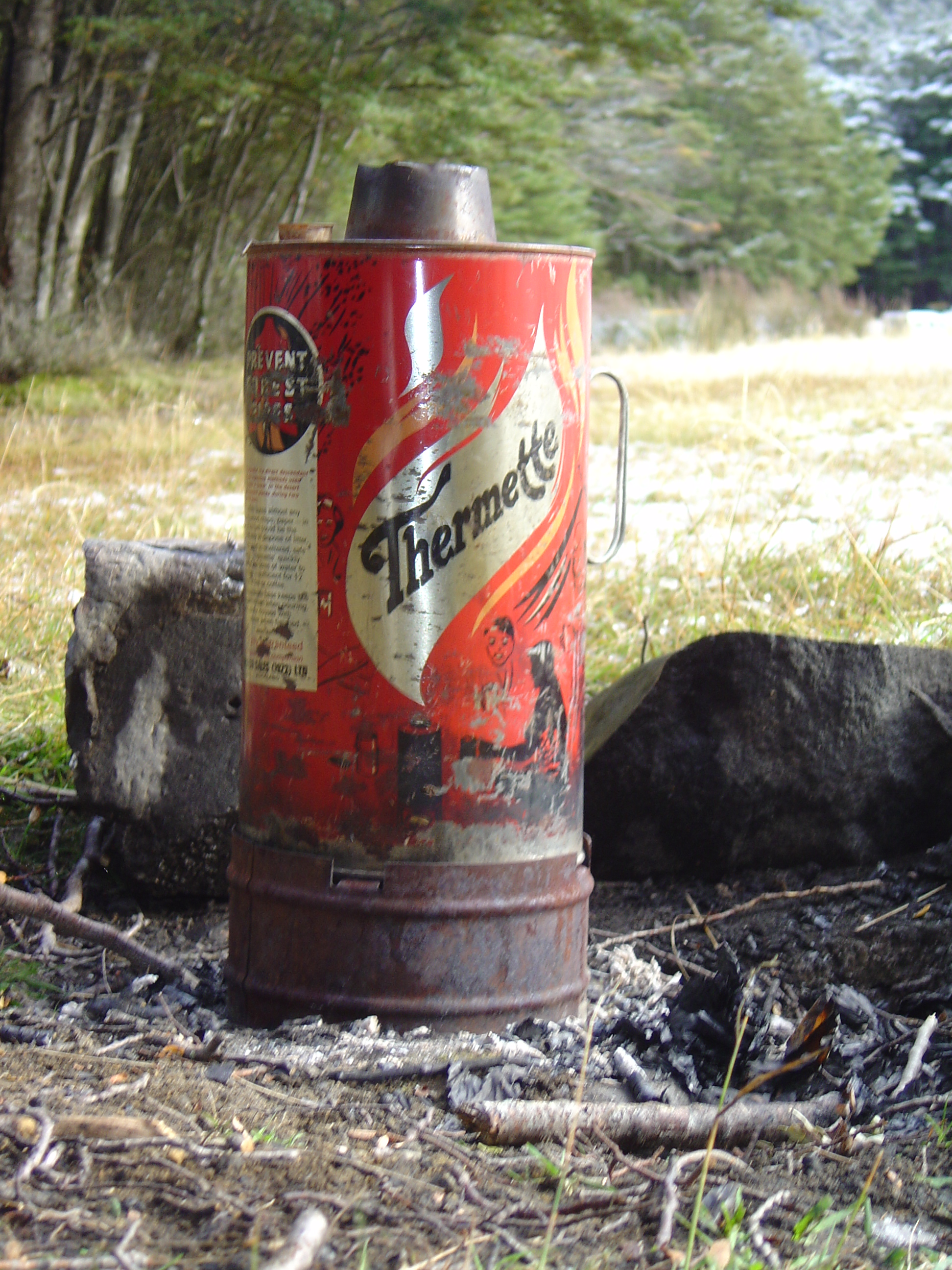 Red thermette of a 1960-70s vintage.